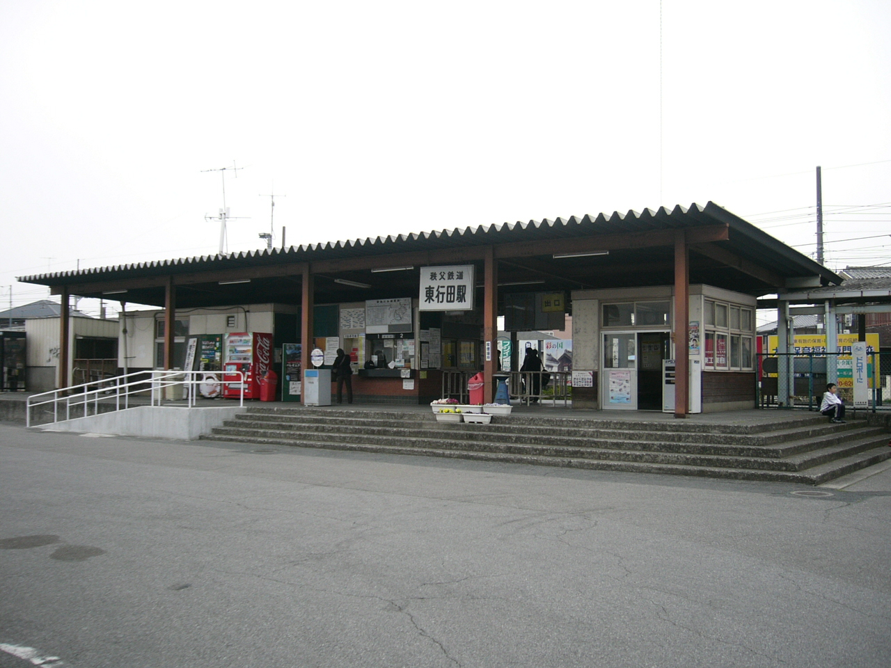 Higashi-Gyōda Station on the Chichibu Main Line in Saitama Prefecture, Japan